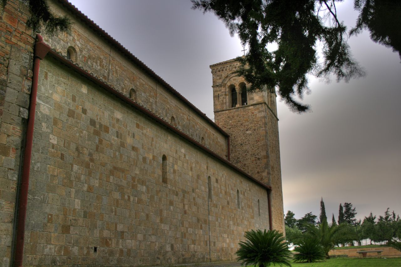 Santuario di Anglona